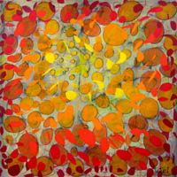 contemporary abstract painting on canvas